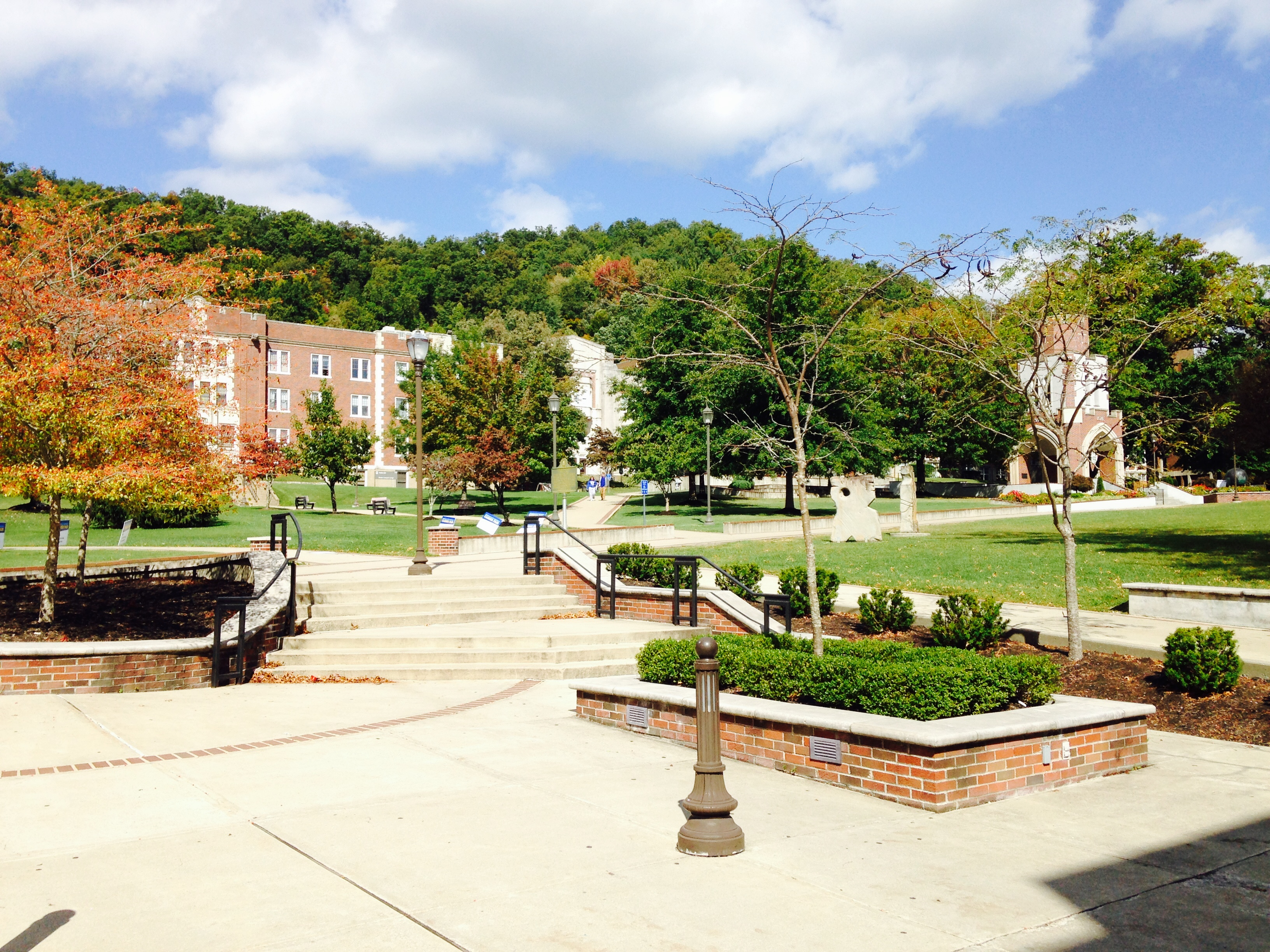 View from ADUC of Fields Hall, Camden-Carroll Library, and Little Bell Tower on Morehead State University campus.